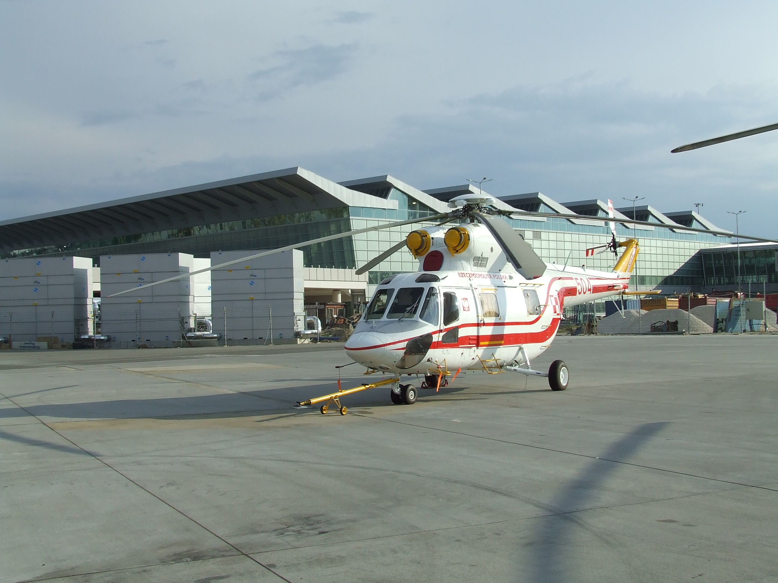 PZL W-3P Sokół helicopter in Warszawa Okęcie Airport, government version